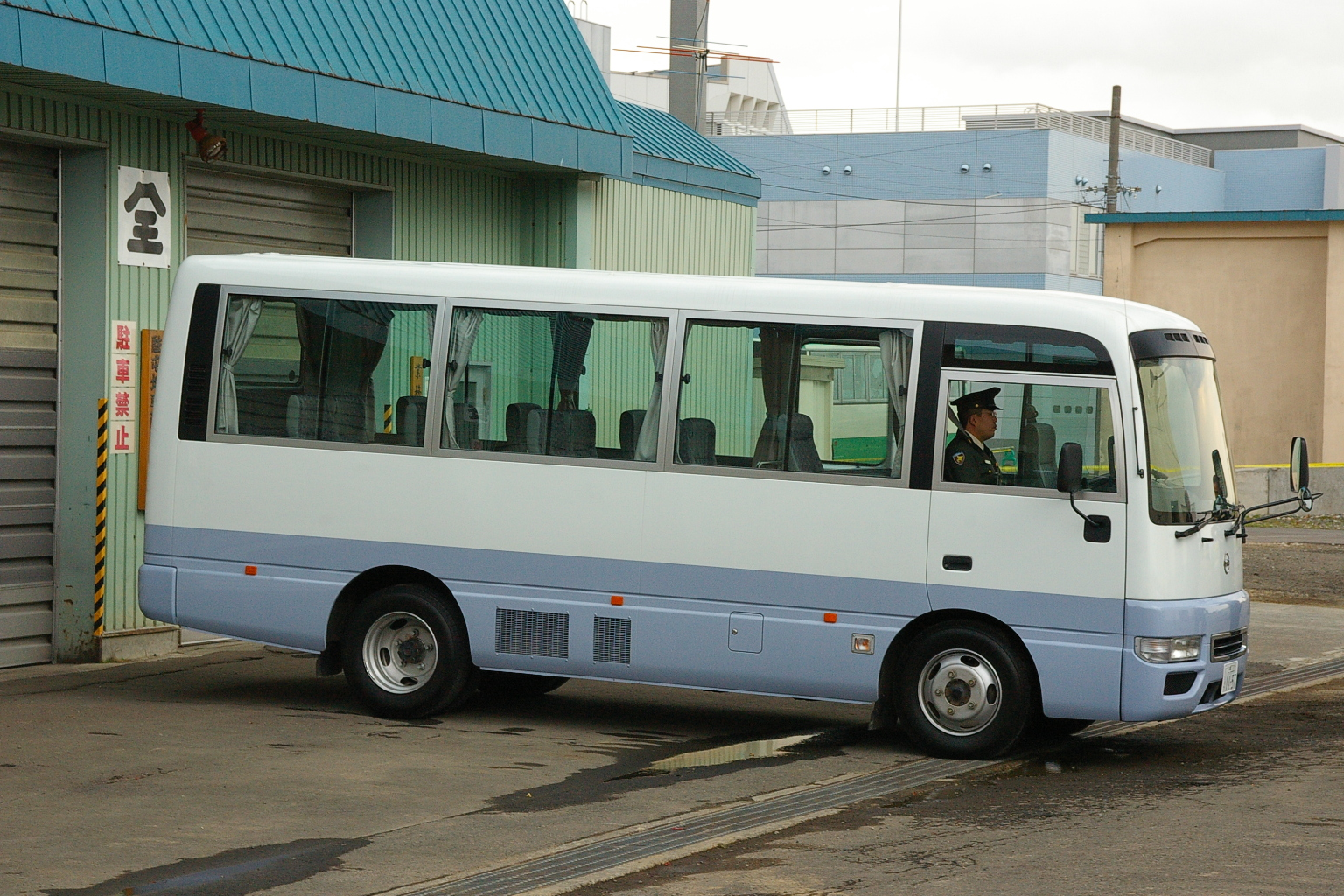 JGSDF Staff transportation vehicle 2go in Okadama STA.